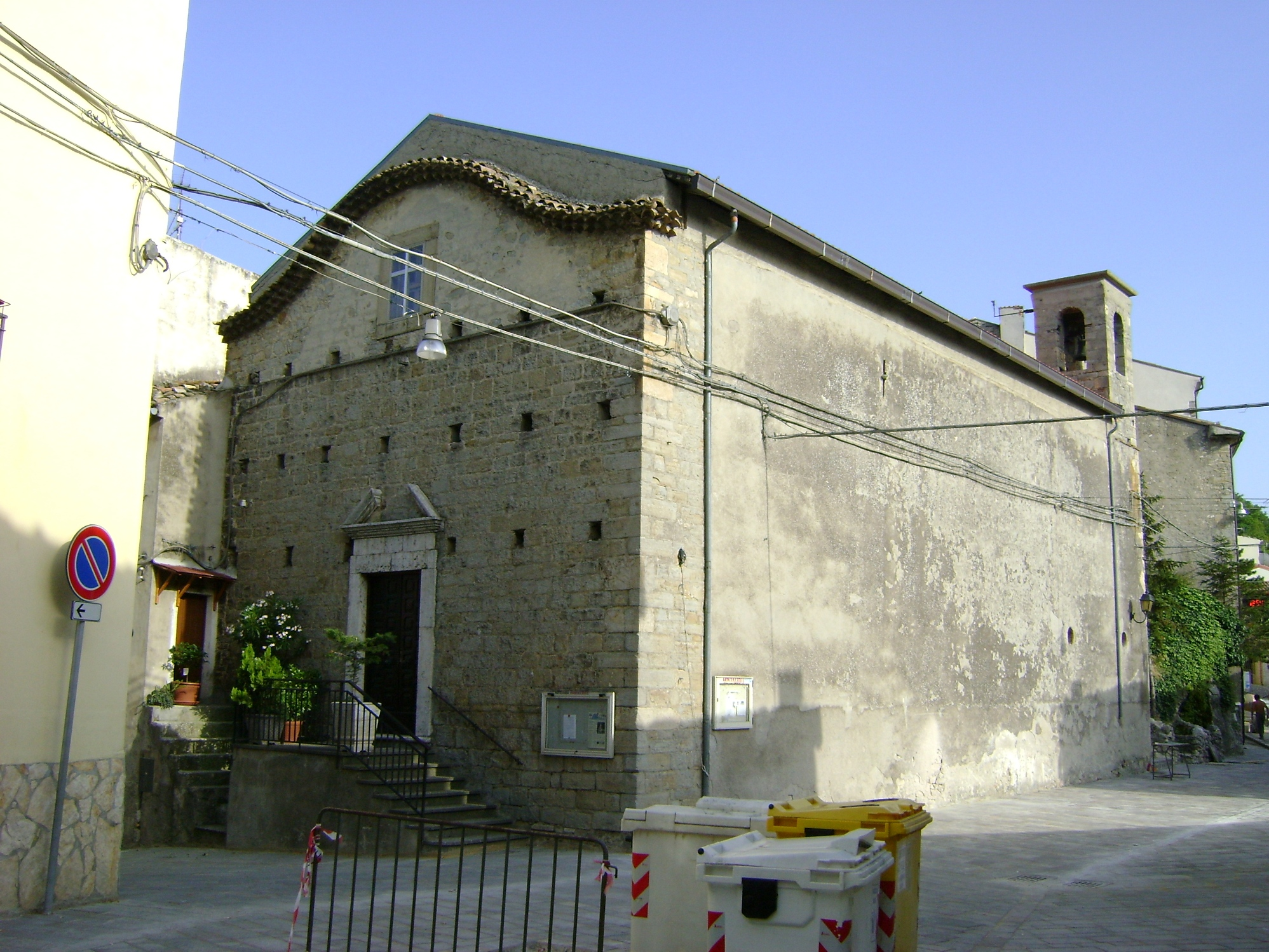 The church of St. Anthony, Montazzoli, province of Chieti, Abruzzo